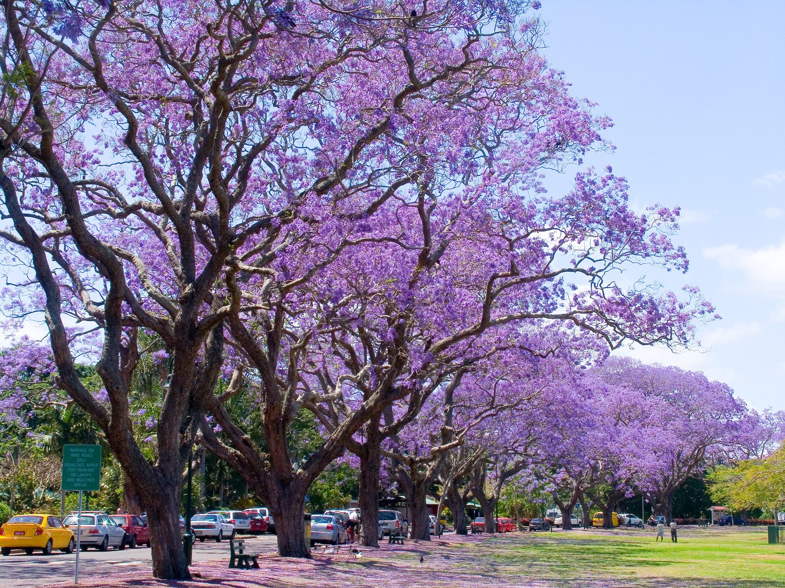 Jacarandas in New Farm Park October 2006